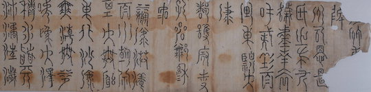 draft of the Cheukju East Sea's epitaph's